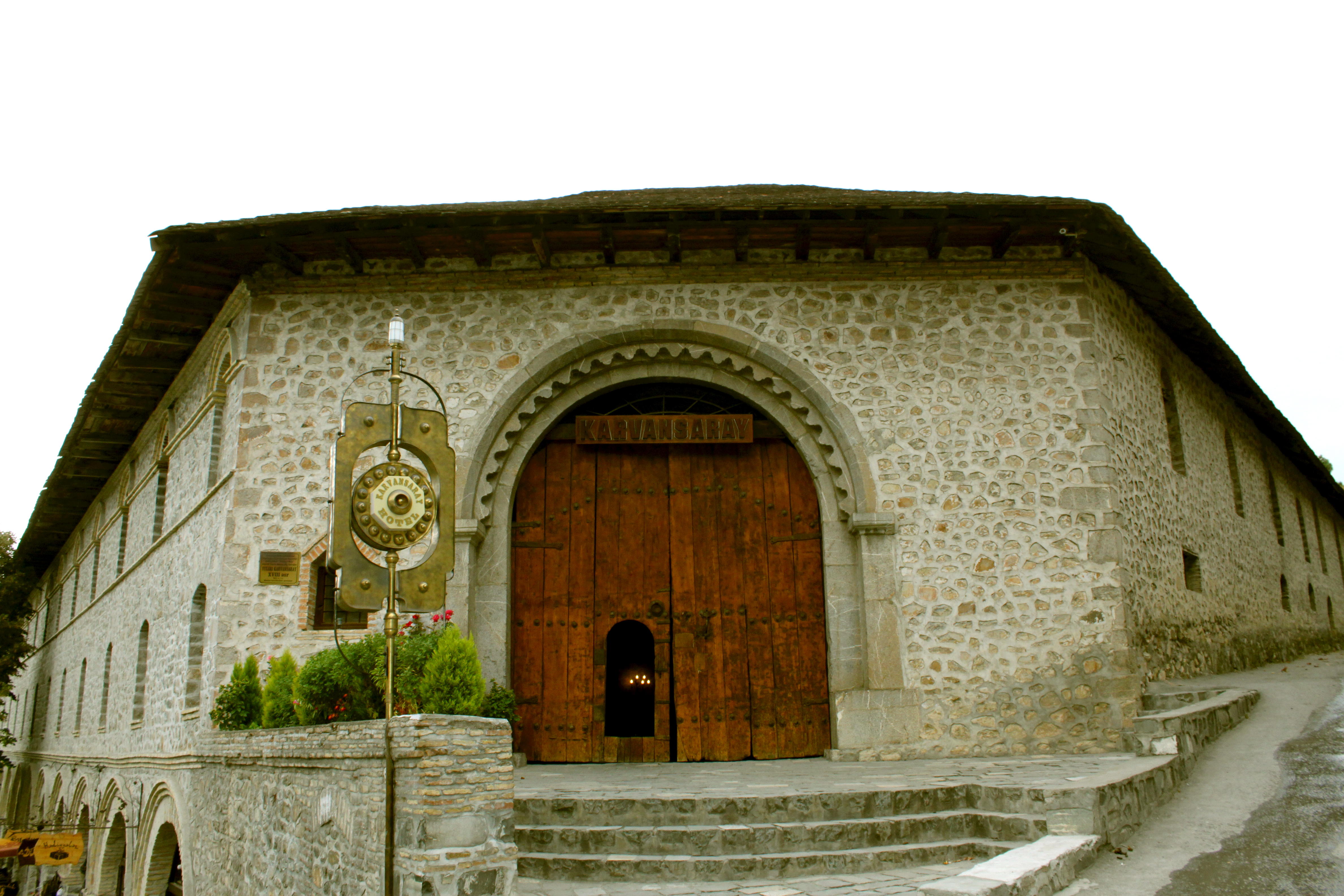 Yukhari kervansarai main entrance